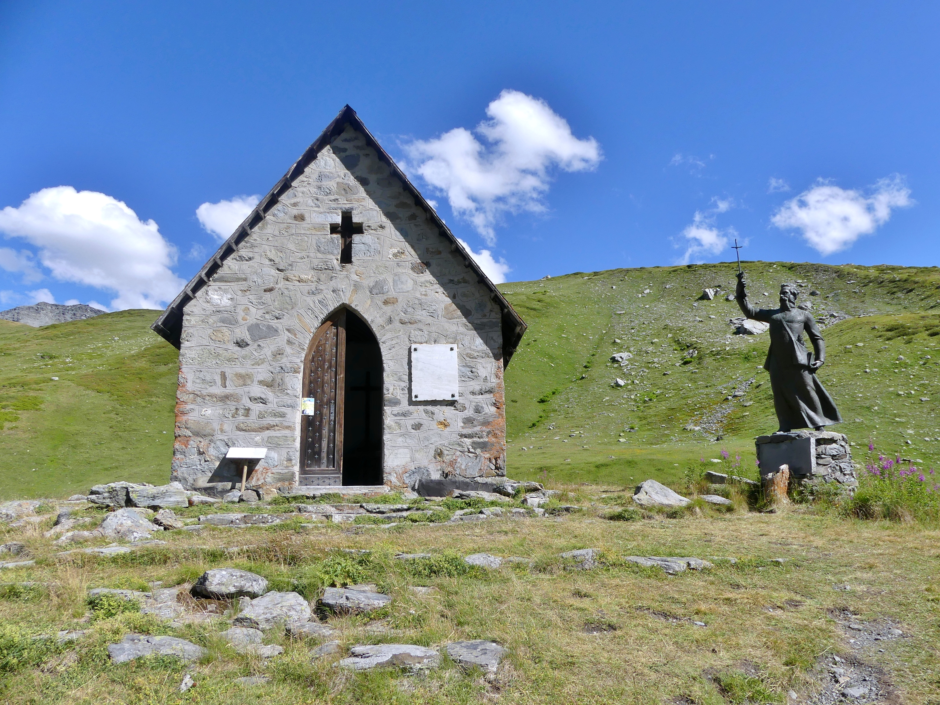 Sight of the chapel and statue dedicated to abbe Pierre Chanoux at the Petit-Saint-Bernard pass, in Savoie, France.